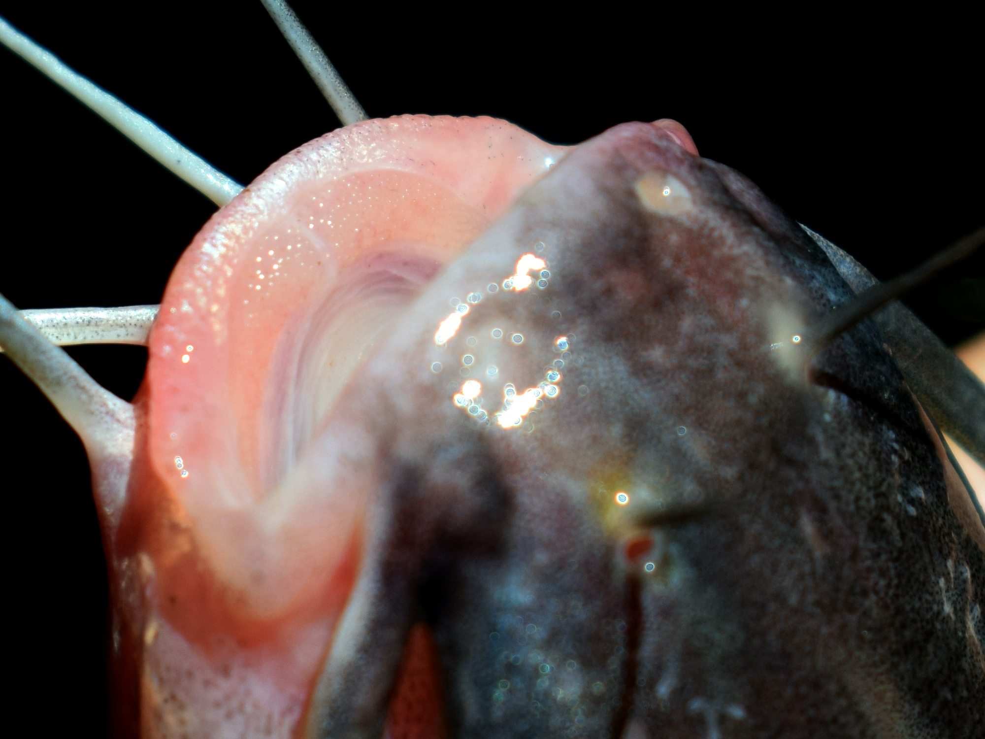 Mystus singaringan, female, 175mm SL; from Cihideung, a tributary of Cisadane River, Bogor, West Java, Indonesia. Mandibular teeth plates.